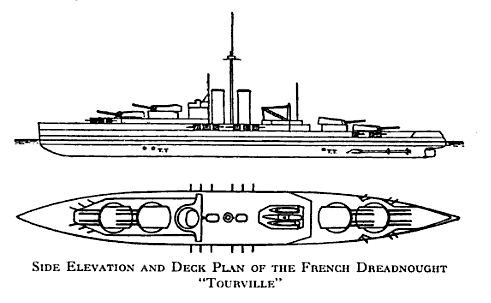 Linedrawing of the unfinished designed by the French Navy shortly before the outbreak of World War I.